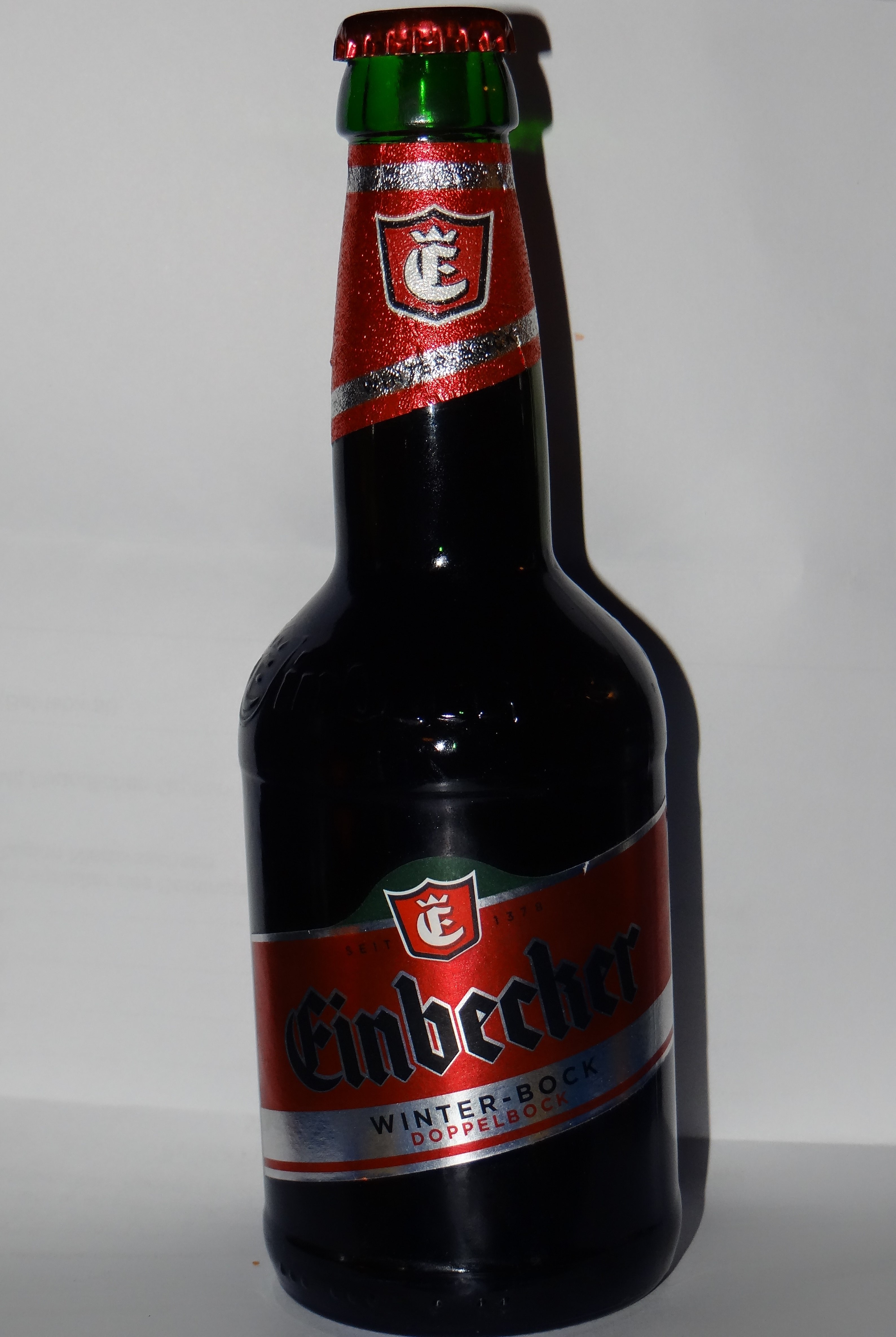 Einbecker Winterbock in traditional "Einbecker" bottle